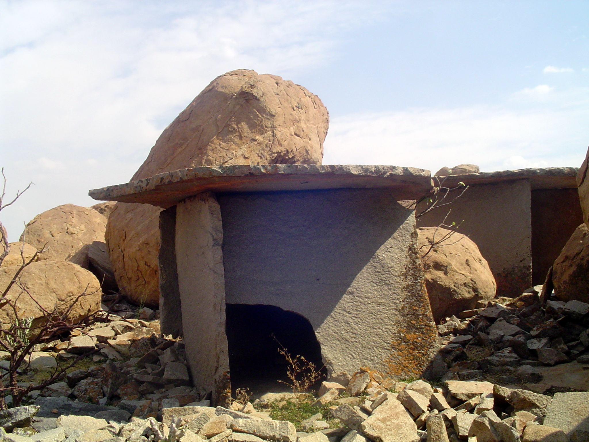 tombe at Pre-historic site, hire benakal